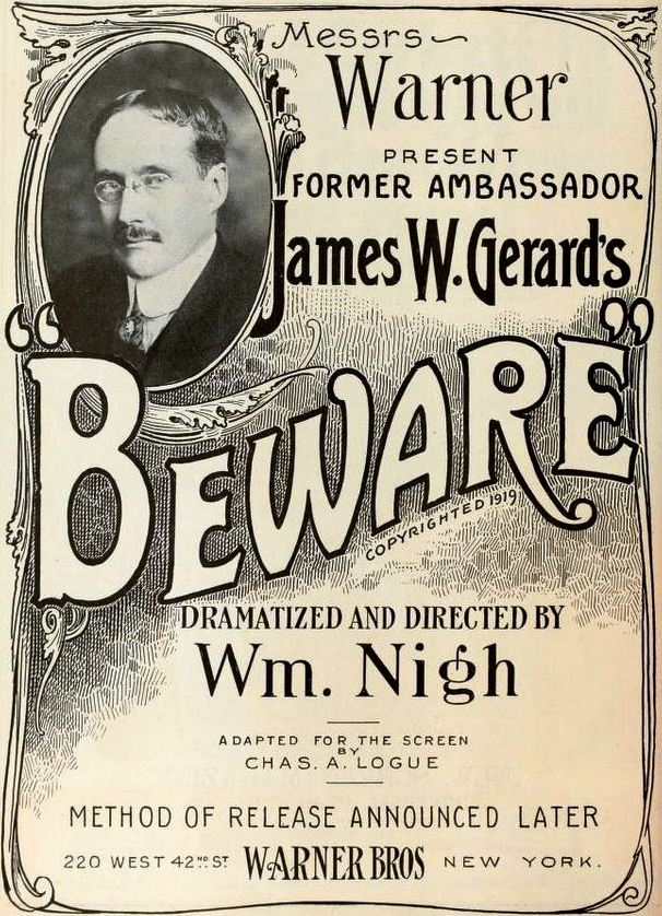 Ad for the American film Beware! (1919), on page 738 of the May 10, 1919 Moving Picture World. Former Ambassador to Germany James W. Gerard warns that Germany will rise again to power and attempt world domination unless safeguards are taken is this documentary style propaganda film.